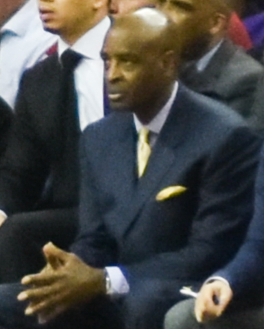 Cleveland Cavaliers assistant coach Larry Drew on Feb. 10, 2016.